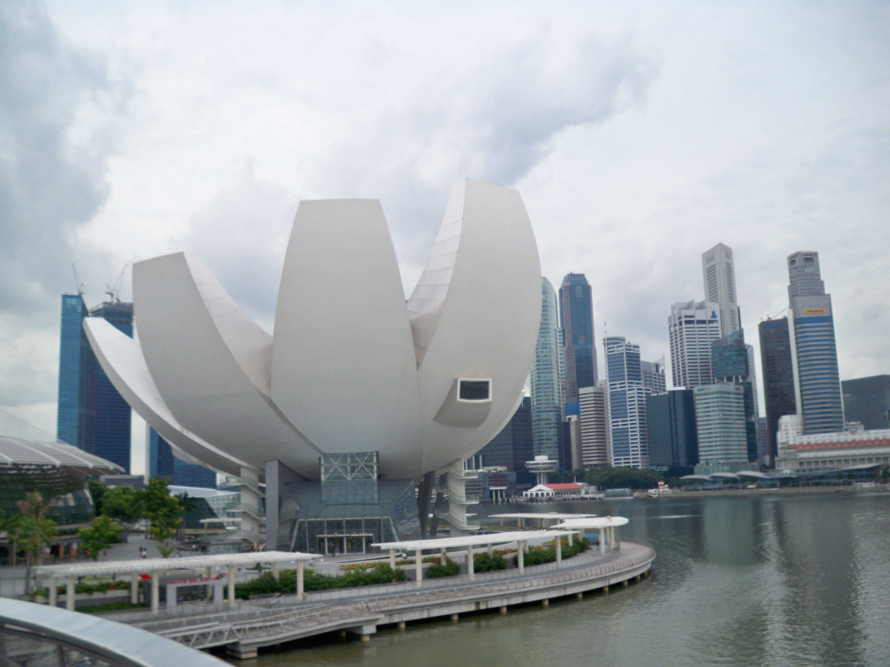 The ArtScience Museum, Marina Bay Sands, Singapore.